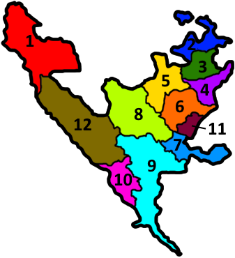 A map of the Parliamentary constituencies of the Federation of Bosnia and Herzegovina